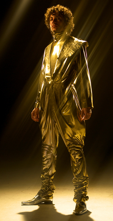 AMOS in hamansutra Goldsuit